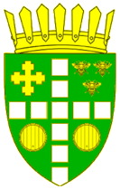 CoA of Condriţa